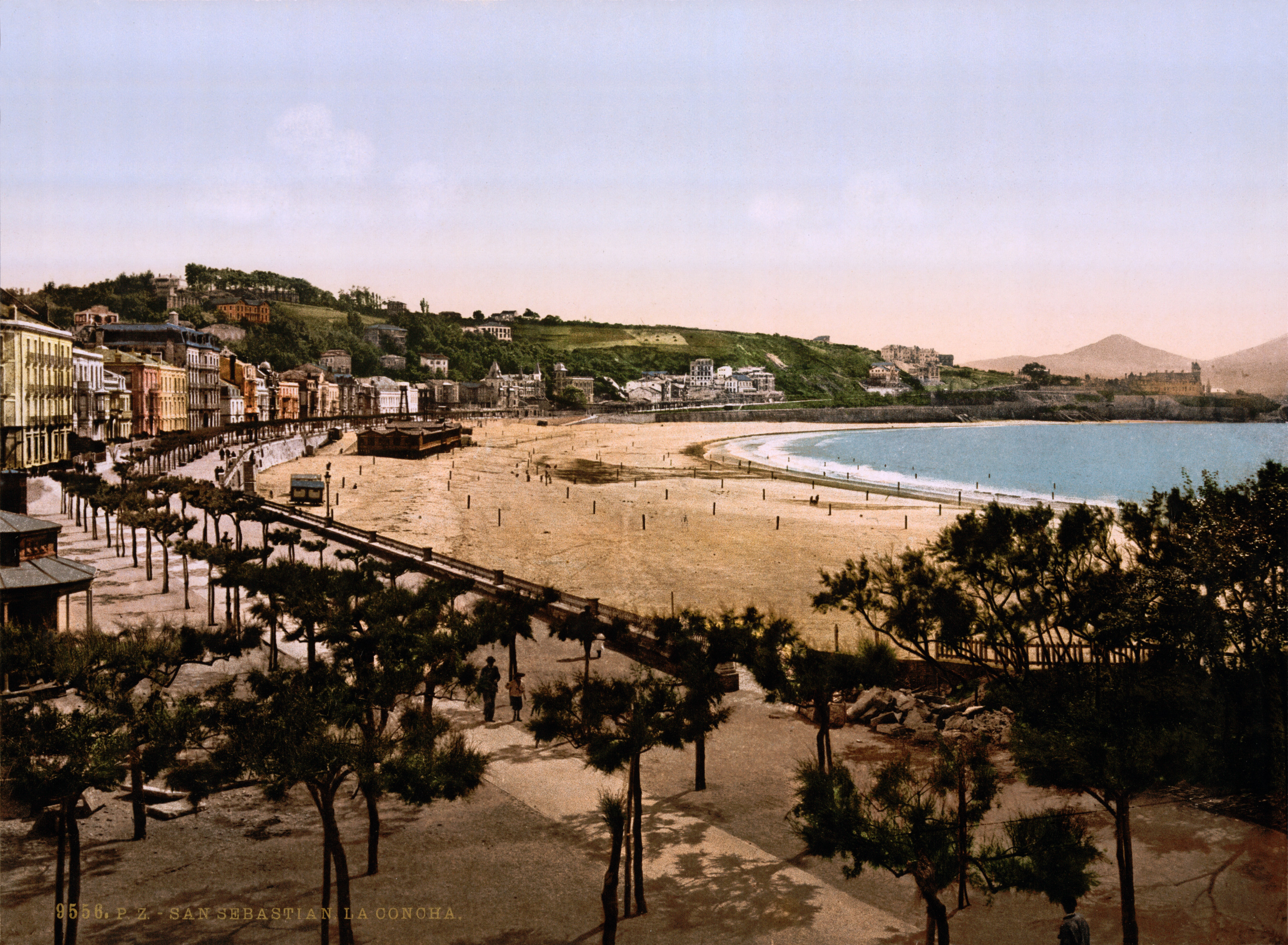 9556 P.Z. San Sebastián, la Concha. Photochrom print by Photoglob Zürich, between 1890 and 1900. From the Photochrom Prints Collection at the U.S. Library of Congress. More photochroms from Spain | More photochrom prints [PD] This picture is in the public domain.